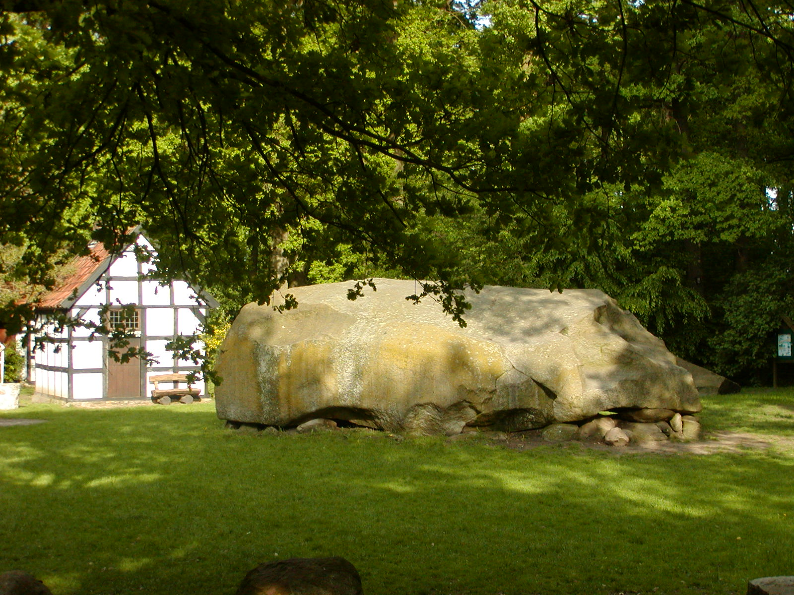 This image shows a heritage building in Germany, located in the North Rhine-Westphalian city Rahden (no. 4).